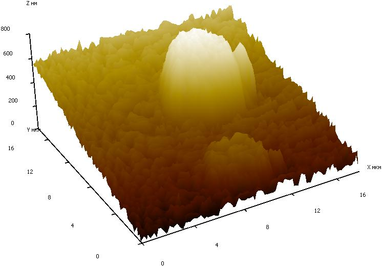 Aspergillis mold grown on tea culture over a glass substrate. Scanning probe microscope image. Vertical scale in nanometers, horizontal scale in micrometers.